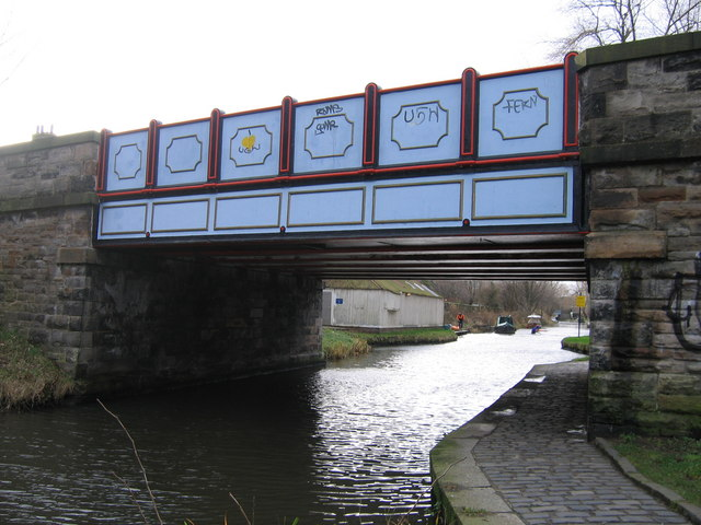 Harrison Road bridge, Union Canal, Edinburgh The local artists have rather crudely added their girlfriends' name and initials to Harrison Road bridge, which separates Harrison Park, Merchiston, into two parts. Beyond the bridge the cream building is the headquarters of the Forth Canoe Club, one of whose members was to win a medal at the Beijing Olympics later in 2008. It is believed that this building originated with a boating society of the former North British Railway, who bought the canal in the 19th century. It occupies one of two spits of land that narrow the canal and were the site of an accommodation bridge across the canal when the area was still open agricultural fields.